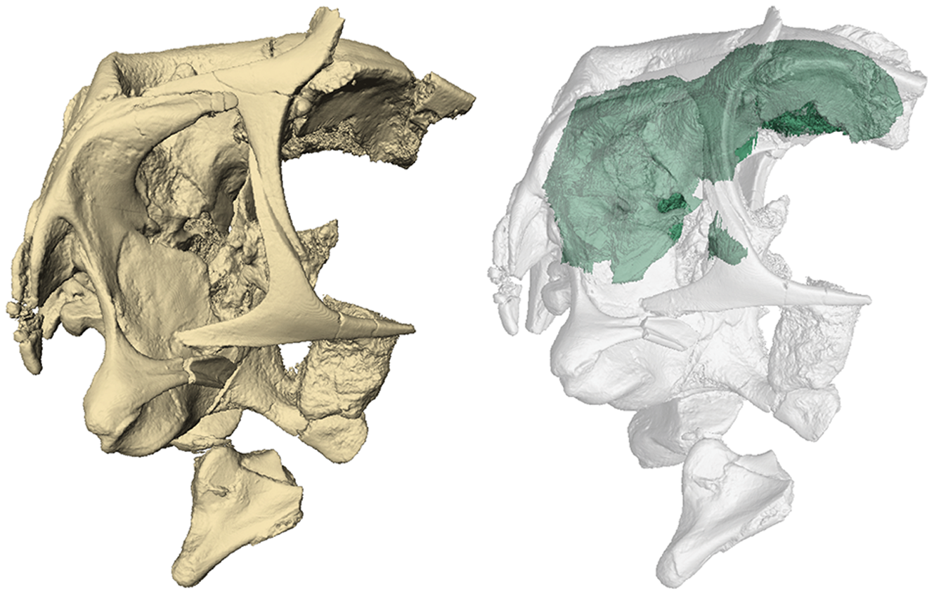 Three-dimensional rendering of the braincase of Conchoraptor gracilis (IGM 100/3006). The left image depicts the fully rendered braincase, whereas in the right image the braincase is rendered semi-transparent and the endocranial volume (endocast) is rendered opaque.